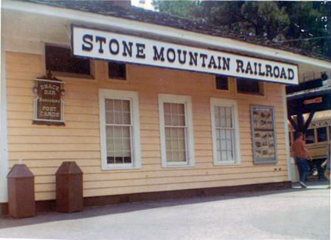 Stone Mountain Railroad station, Georgia, USA